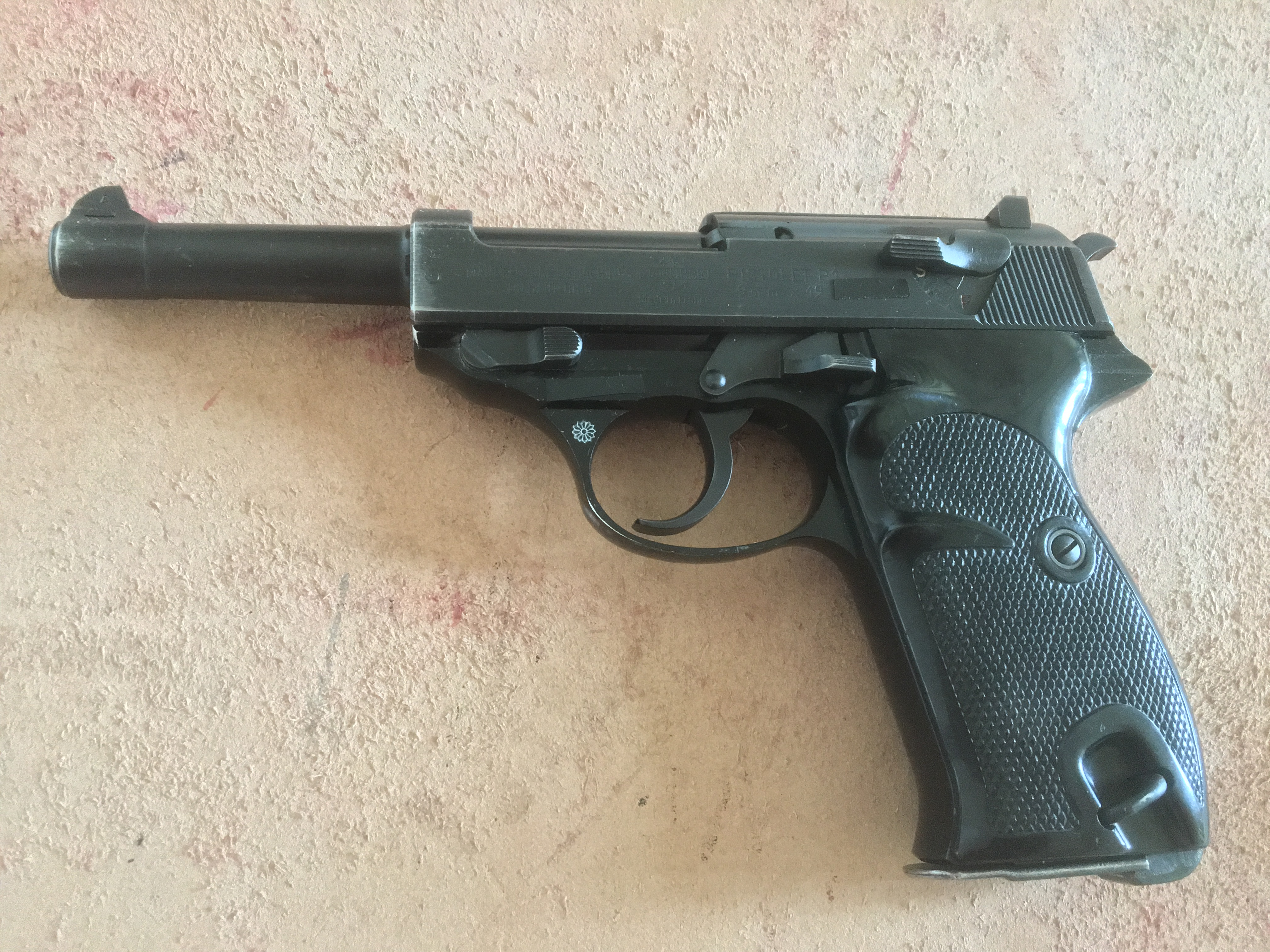 Picture of Manurhin p-1 pistol